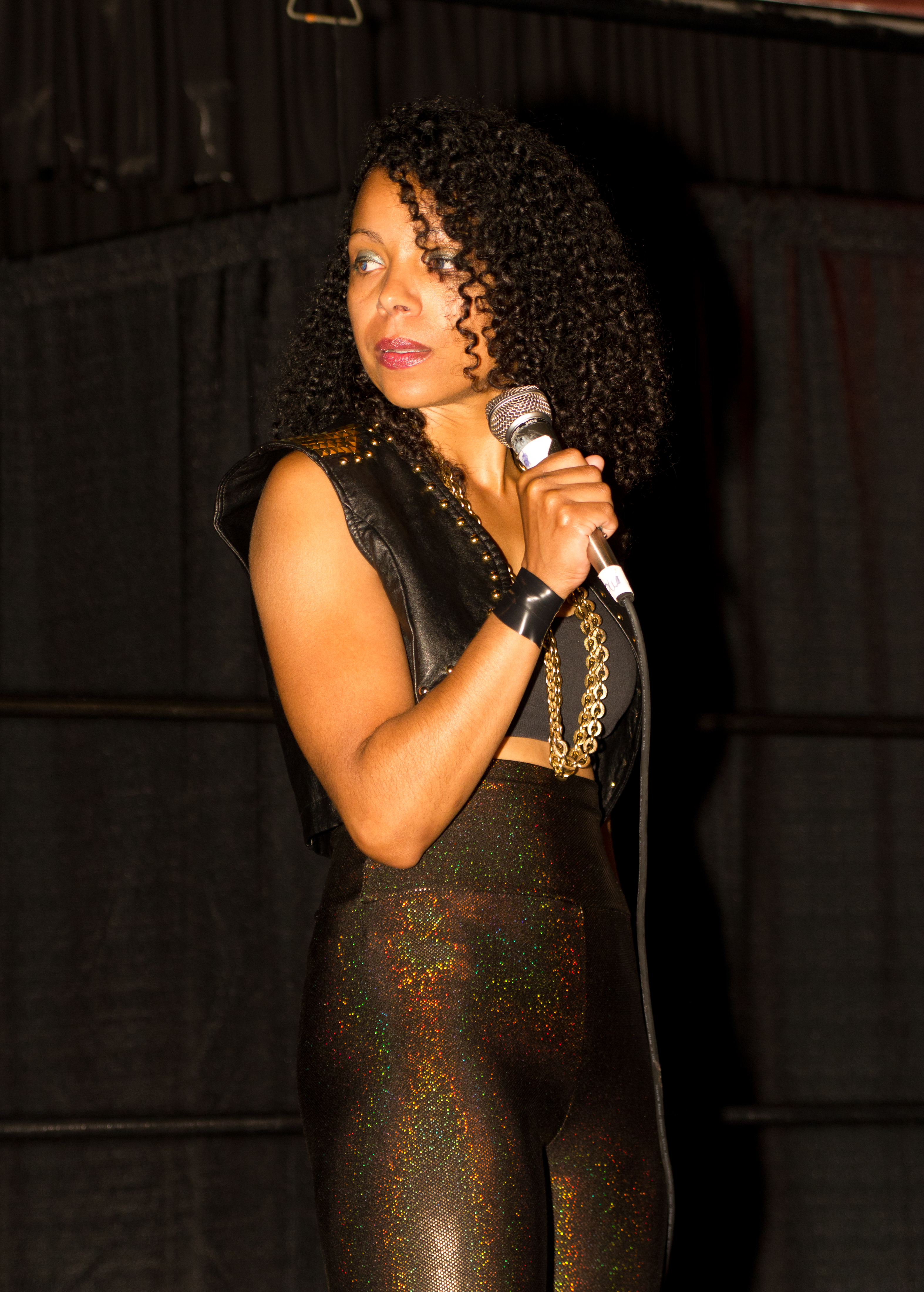 Independent wrestler She Nay Nay (real name Athanasia Alexopoulos) at the Fight! 5 event at the Tranzac club in Toronto, ON